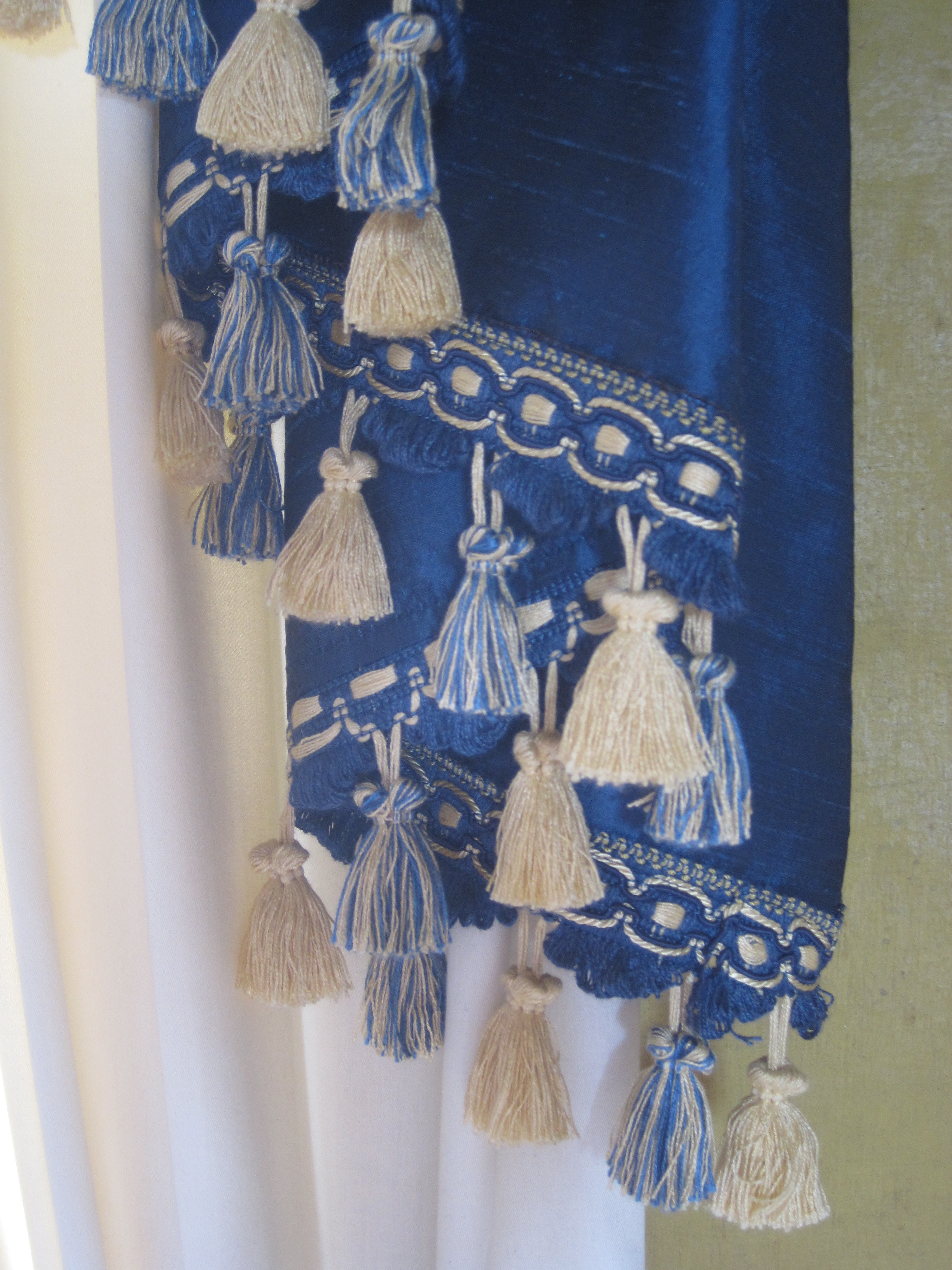 Tassels as a part of a 19th century curtain at Katrinetorp mansion in Malmö, Sweden